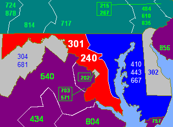 Map of the State of Maryland in blue with surrounding area codes showing Overlay Area Codes 301 and 240 in red.